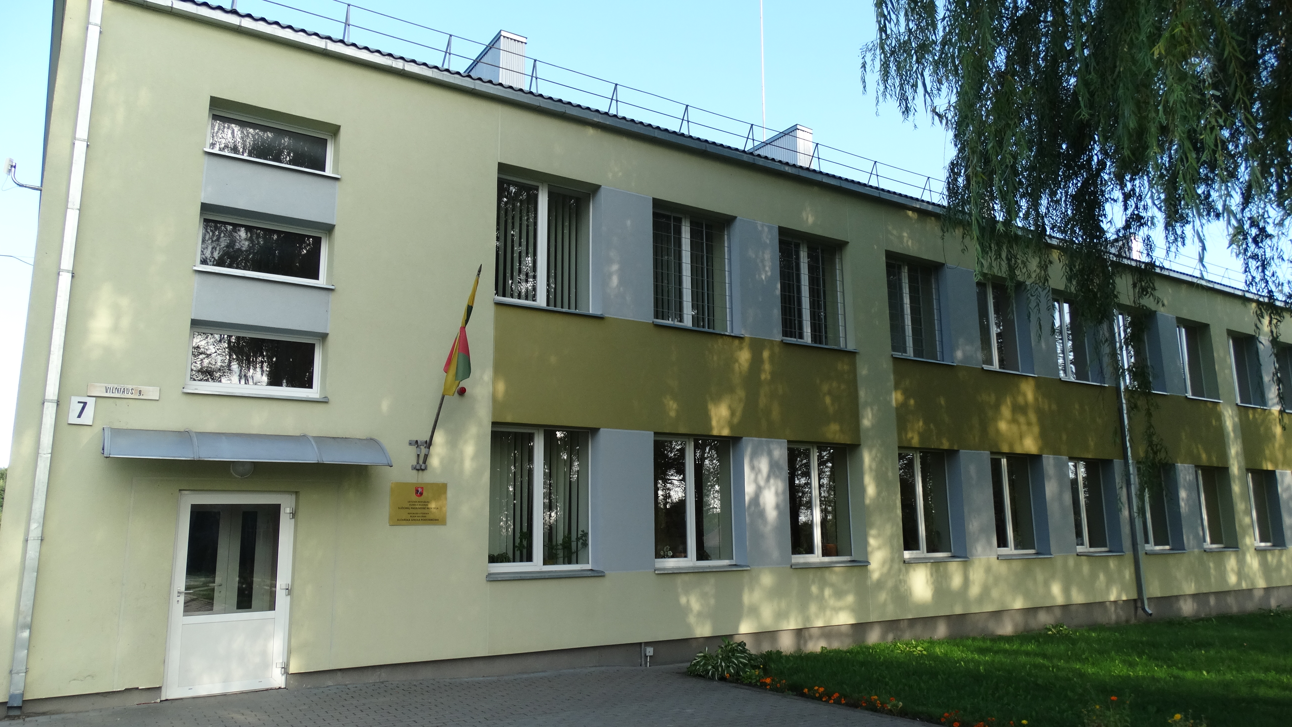 Basic School, Sužionys, Vilnius District, Lithuania